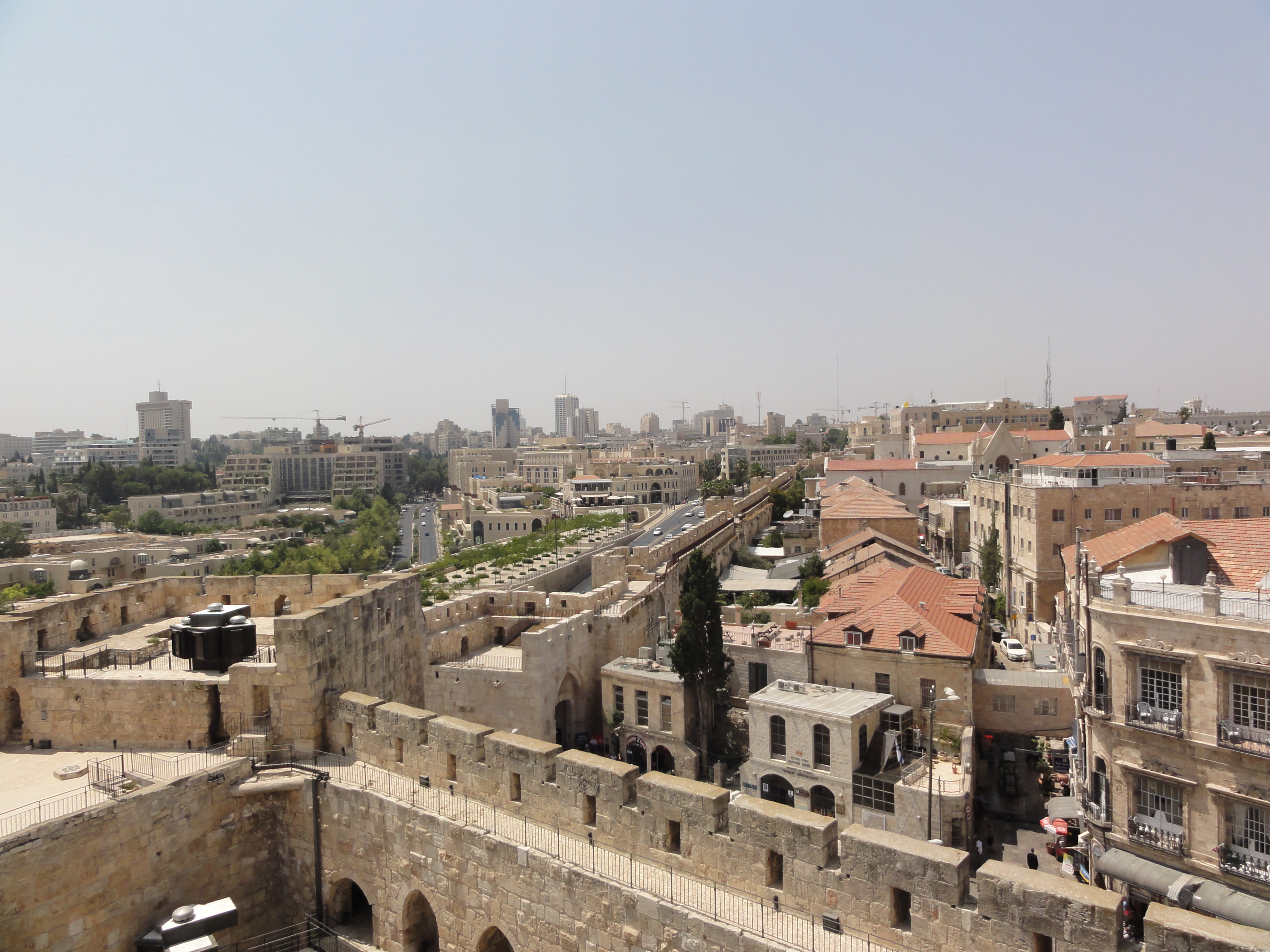 View from the Tower of David, Jerusalem, : the wall between new (left) and old (right) city of Jerusalem